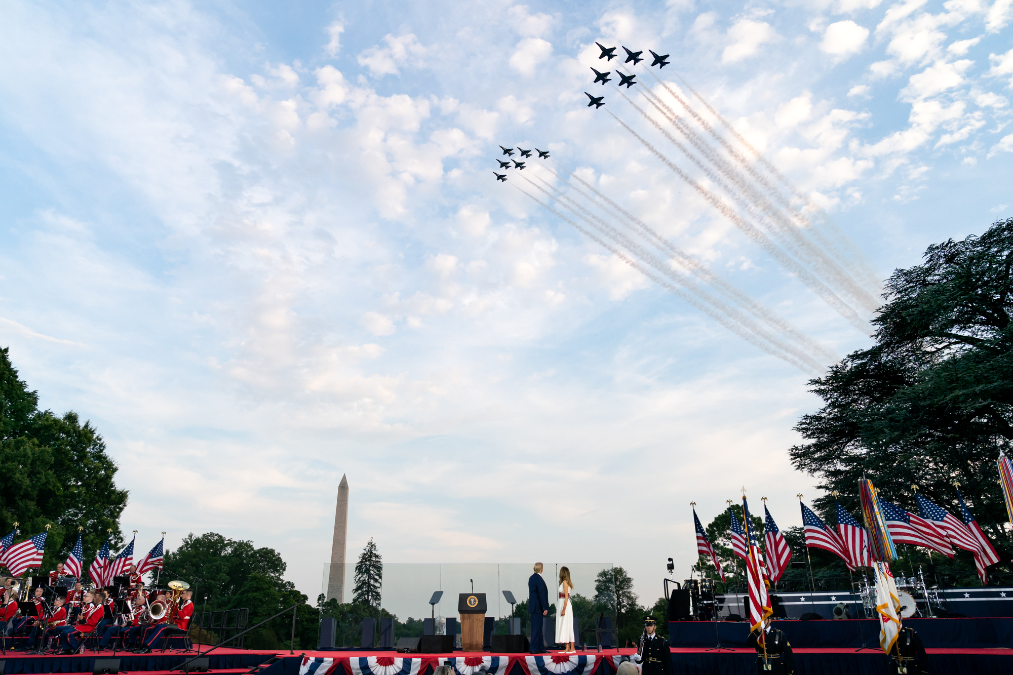 President Donald J. Trump and First Lady Melania Trump watch as the United States Air Force Thunderbirds and the United States Navy Blue Angels perform a flyover during the 2020 Salute to America event Saturday, July 4, 2020, on the South Lawn of the White House. (Official White House Photo by Andrea Hanks)